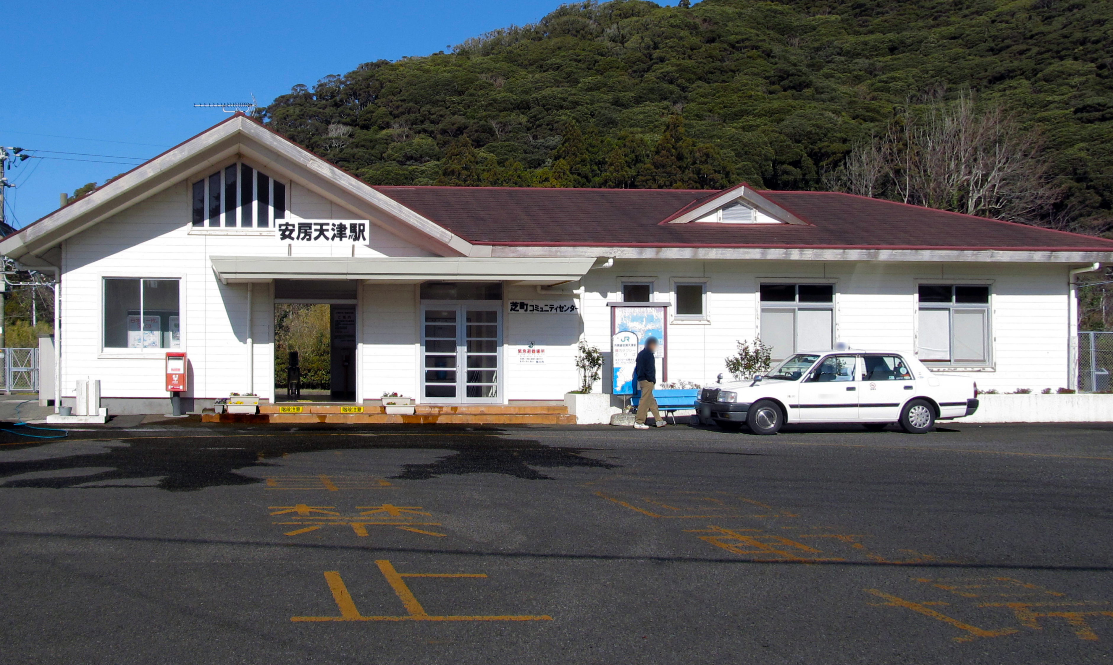 Awa-Amatsu Station on the Sotobō Line in Kamogawa, Chiba Prefecture, Japan